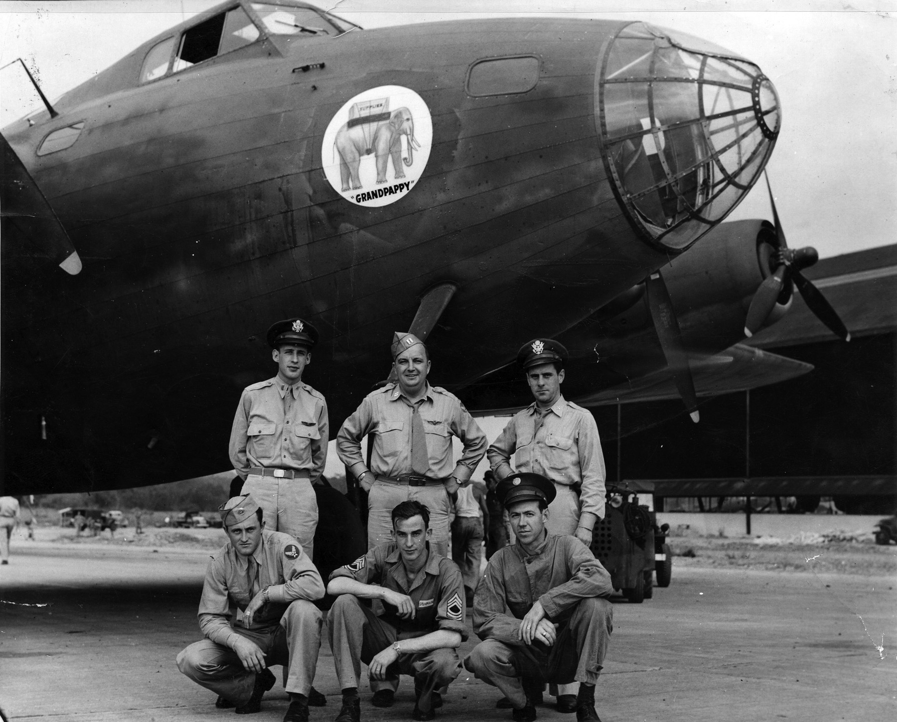 Monochrome photograph of the XC-105 in 1943, shown in Panama at Allbrook Field with the airplane's flight crew posed in front of the nose which is painted with an elephant carrying supplies and the name "Grandpappy". One of the crewmen is Master Sgt. Laird N. Rosborough, the radio operator. The one-of-a-kind aircraft was previously designated the Boeing XB-15. It was scrapped in 1945 at Allbrook Field.